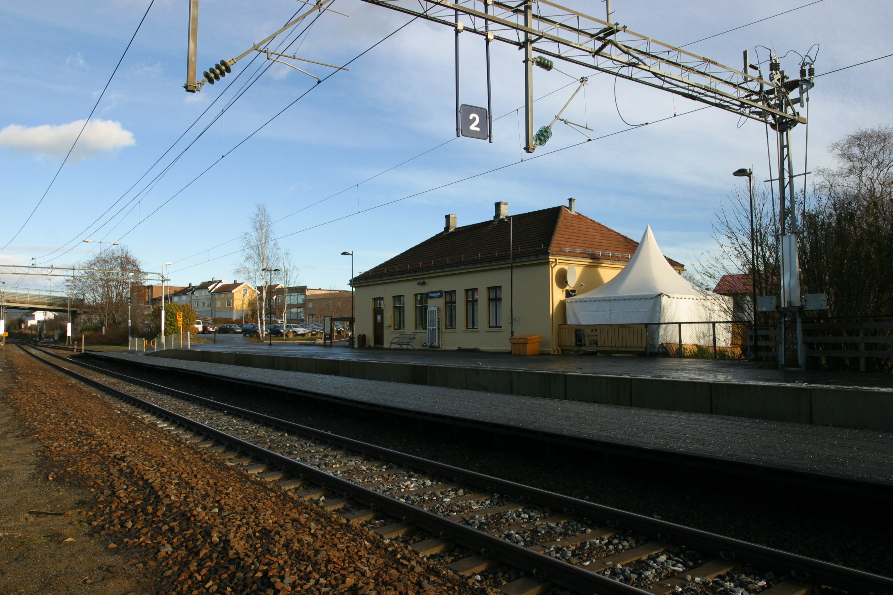 Picture of Vestfossen Railway Station (Buskerud - Norway)